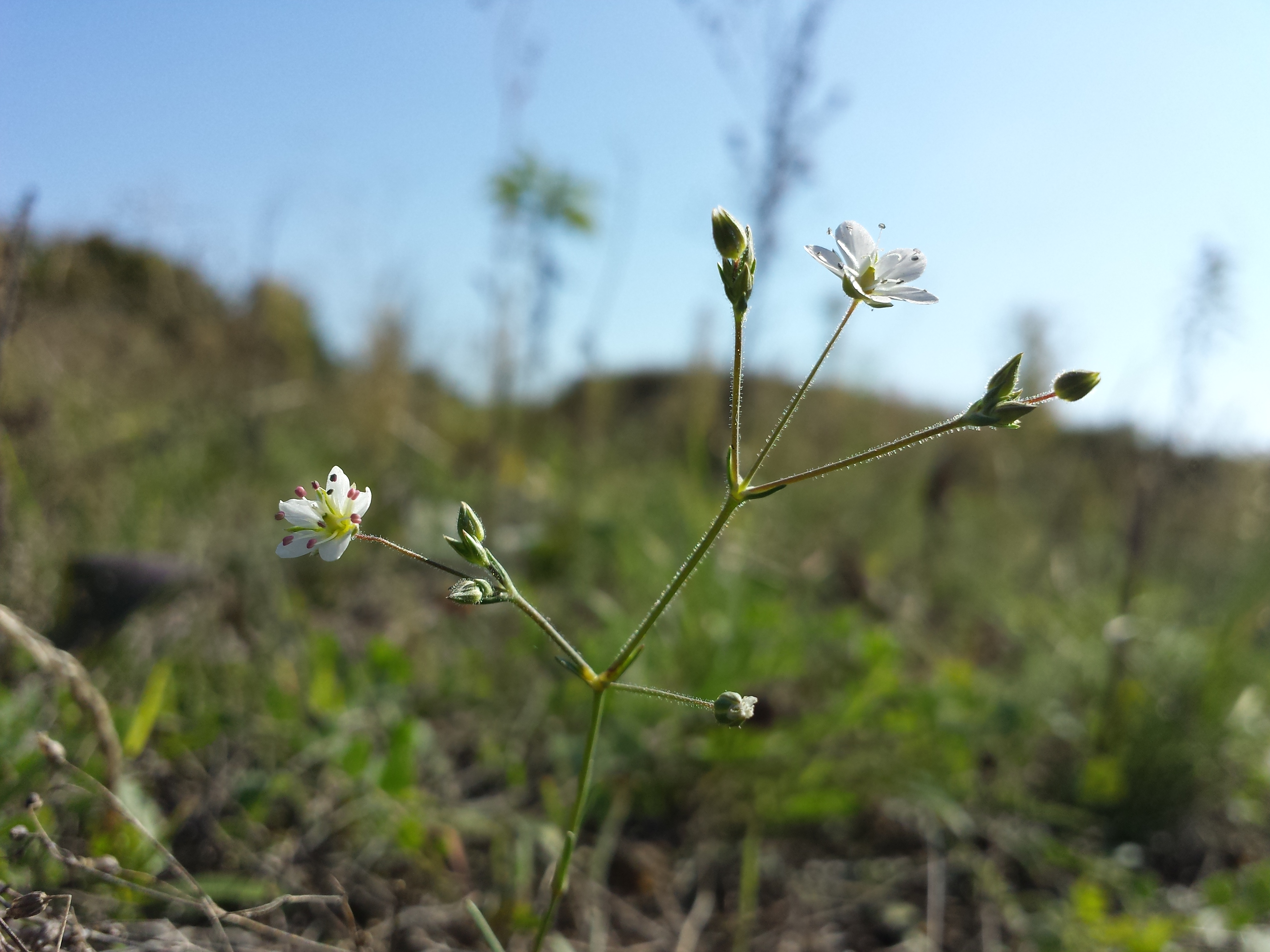 Habitus Taxonym: Minuartia glaucina ss Fischer et al. EfÖLS 2008 ISBN 978-3-85474-187-9 Location: nature reserve Erdpresshöhe, Lassee, district Gänserndorf, Lower Austria - ca. 145 m a.s.l. Habitat: sand steppe This media shows the nature reserve in Lower Austria with the ID 70.